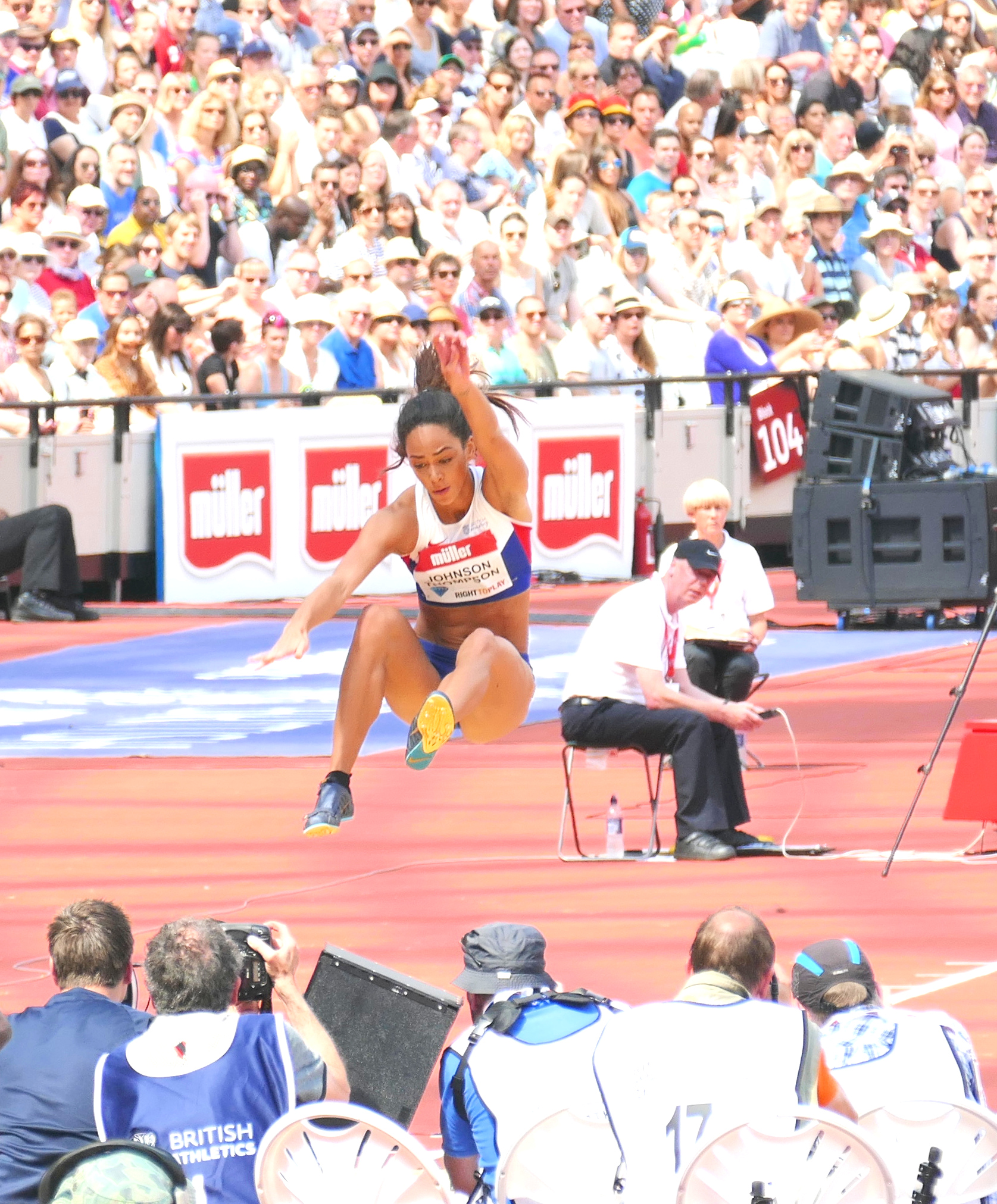 Katarina Johnson-Thompson competes in the Long Jump event at the Anniversary Games in London, July 2016